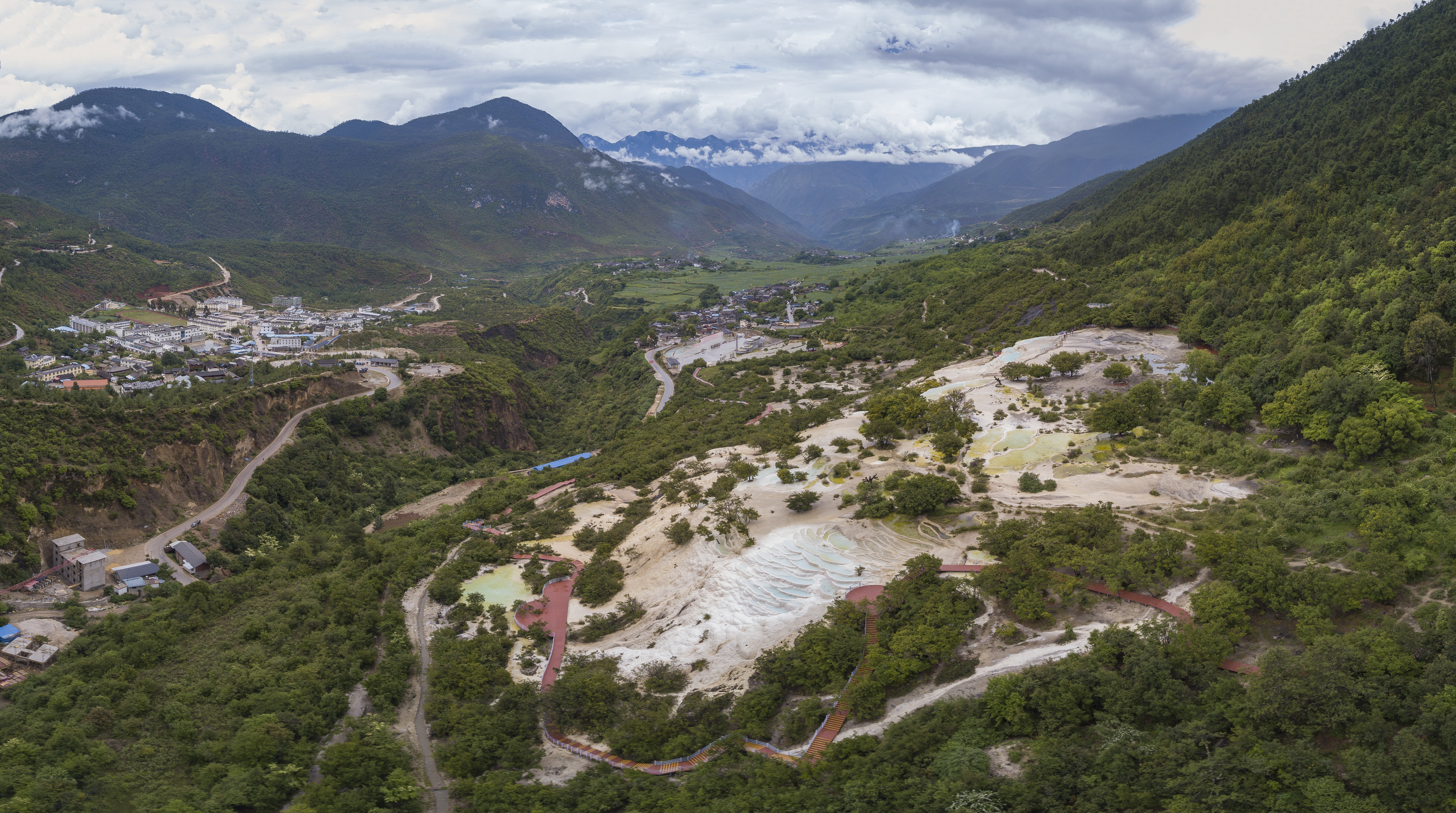 aerial pano baishuitai water terrace aerial panorama yunnan 2018